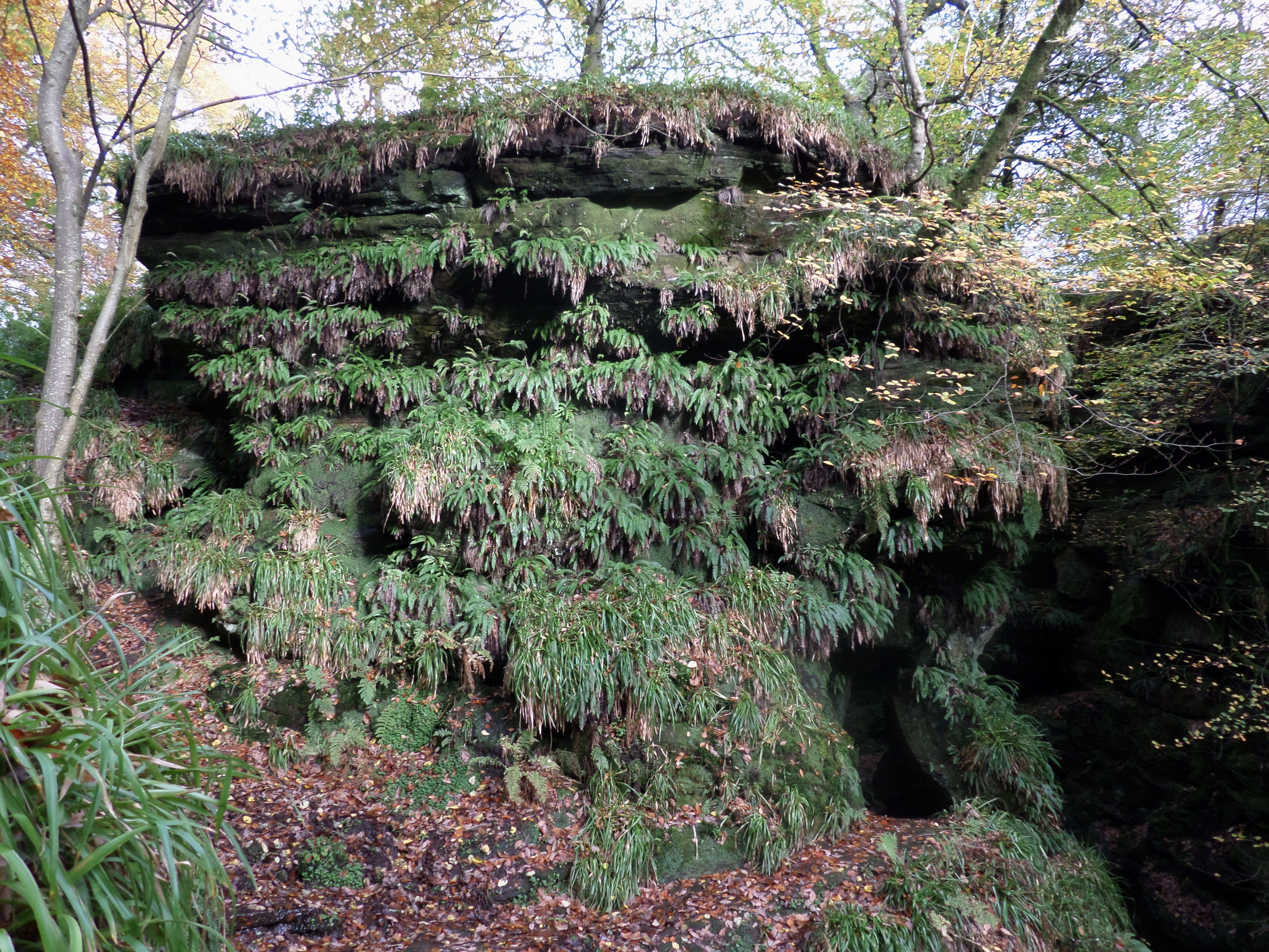 Crichope Linn red sandstone arch and Burley's Leap, Cample, Dumfries & Galloway, Scotland. The leap is named after a fictious character in Sir Walter Scotts 'Old Mortality'.